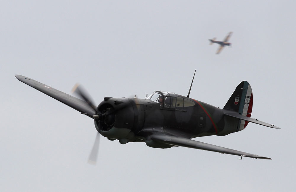 Curtiss P-36 Hawk 75C-1